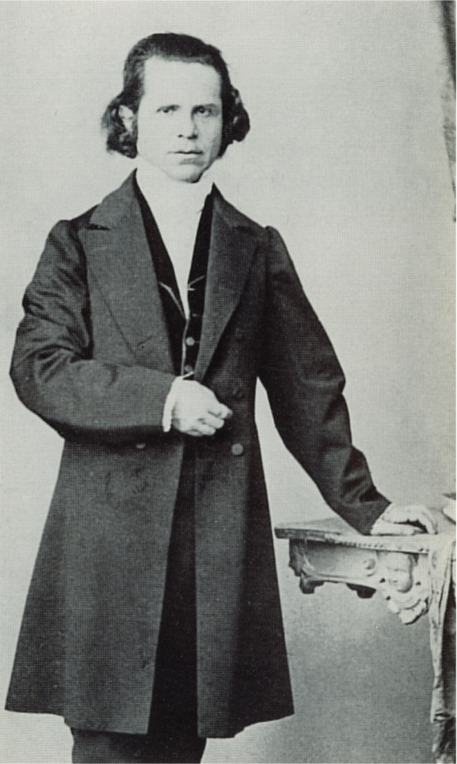 Adolf Jellinek, austrian rabbi and scholar